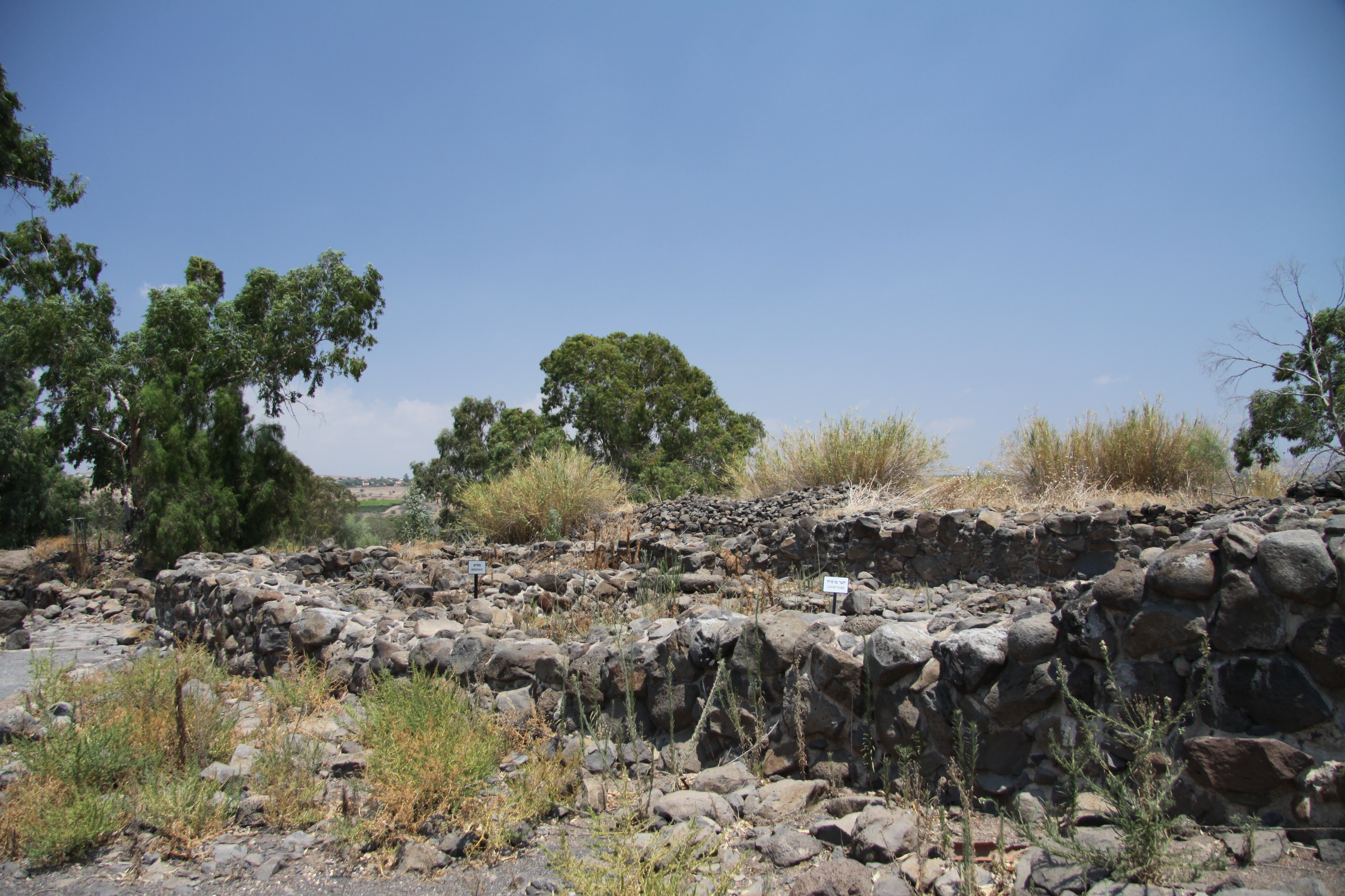 Ruins of fishing village Bethsaida meantiond in New Testament of Bible, northern from Sea of Galilee, Israel